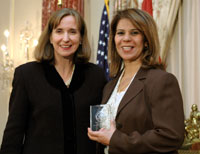 2007 International Women of Courage Award